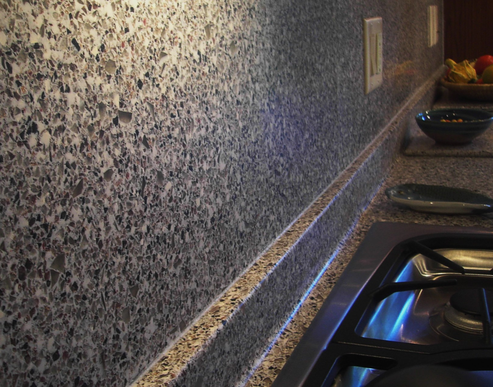 Solid surface used in a vertical application.